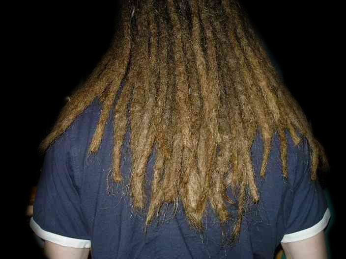 ca. 3 year old dreadlocks, 47 in total, created with backcombing method